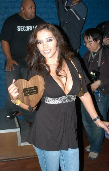 Francesca Le holding her XRCO Hall of Fame trophy